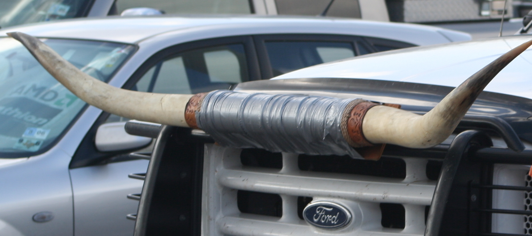 Texas hood ornament - Longhorn horns on a Ford pick-up truck.